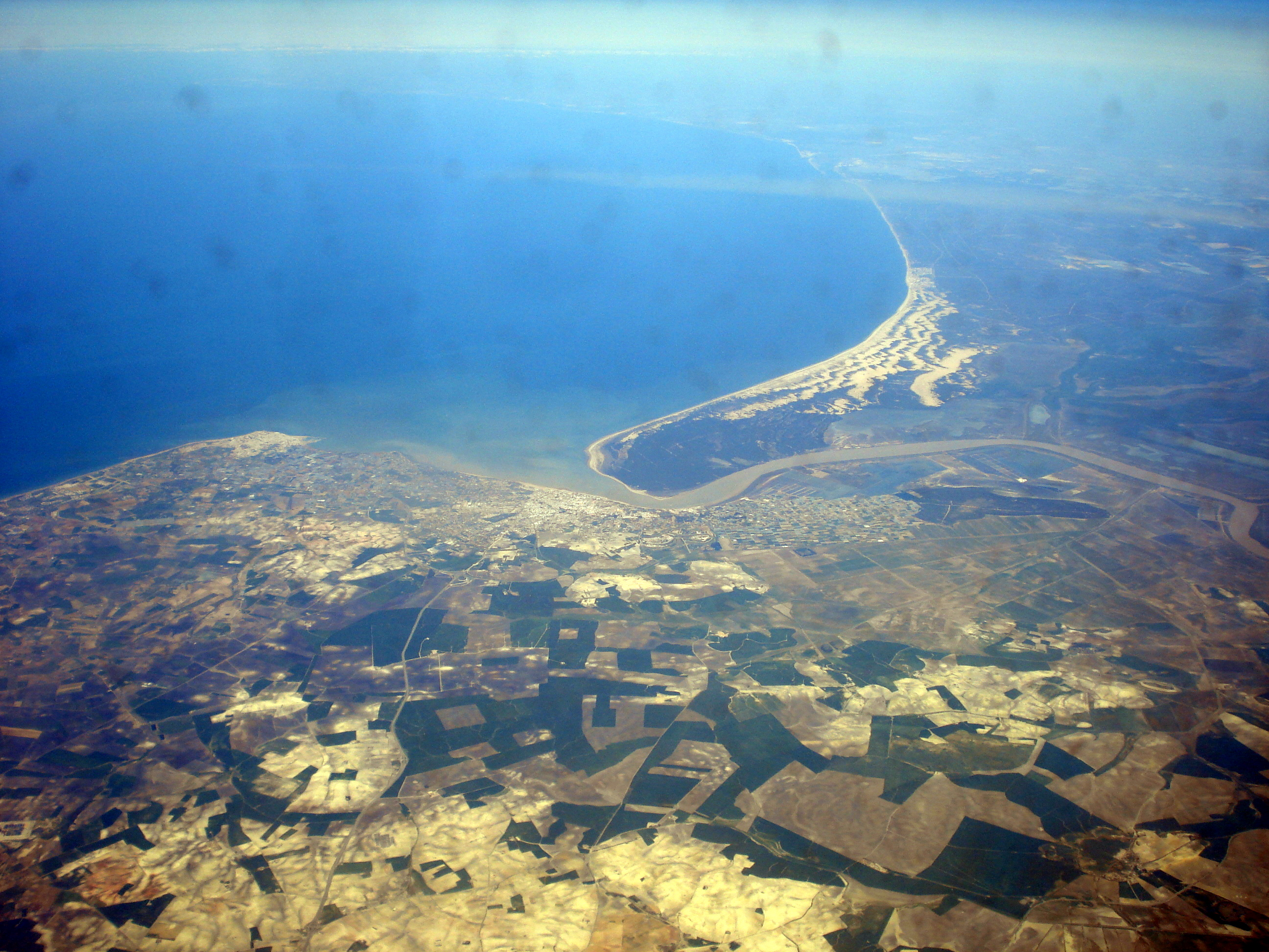 Aerial view of the mouth of the Guadalquivir river, Andalusia, Spain